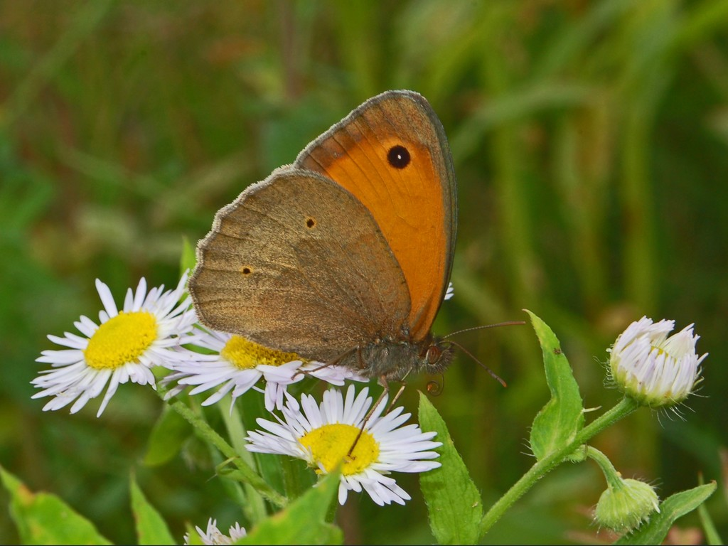 Satyridae - Maniola jurtina